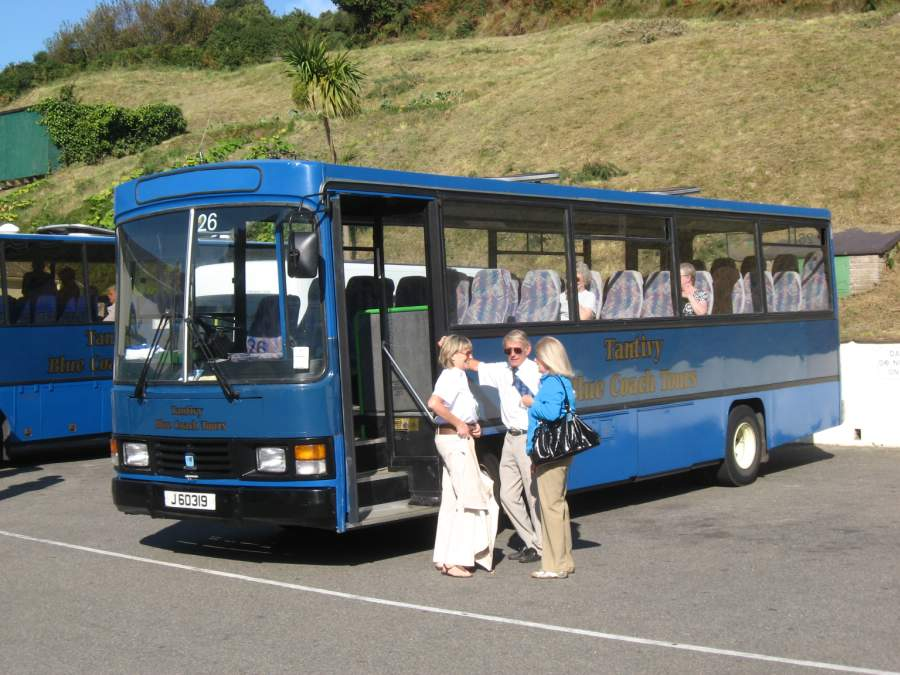 Leyland Swift tourist coach on Jersey.